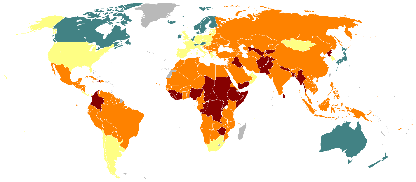 Failed State Index, 2006